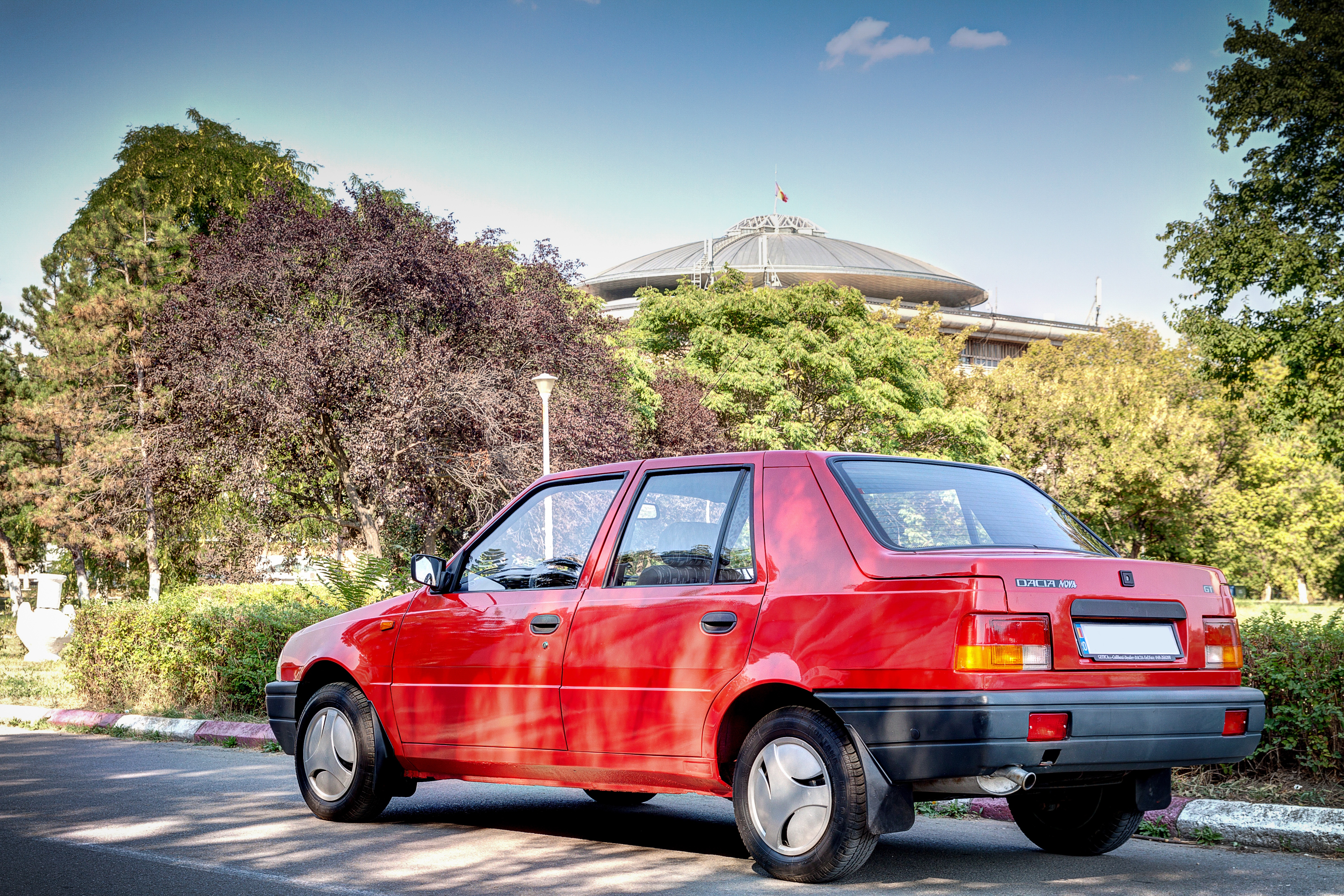 The Dacia Nova GT with an R524 body.